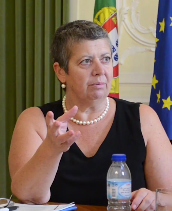 Ana Paula Vitorino, Portuguese Minister of Maritime Affairs, in 2017.